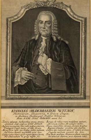 Johann Hildebrand Withof